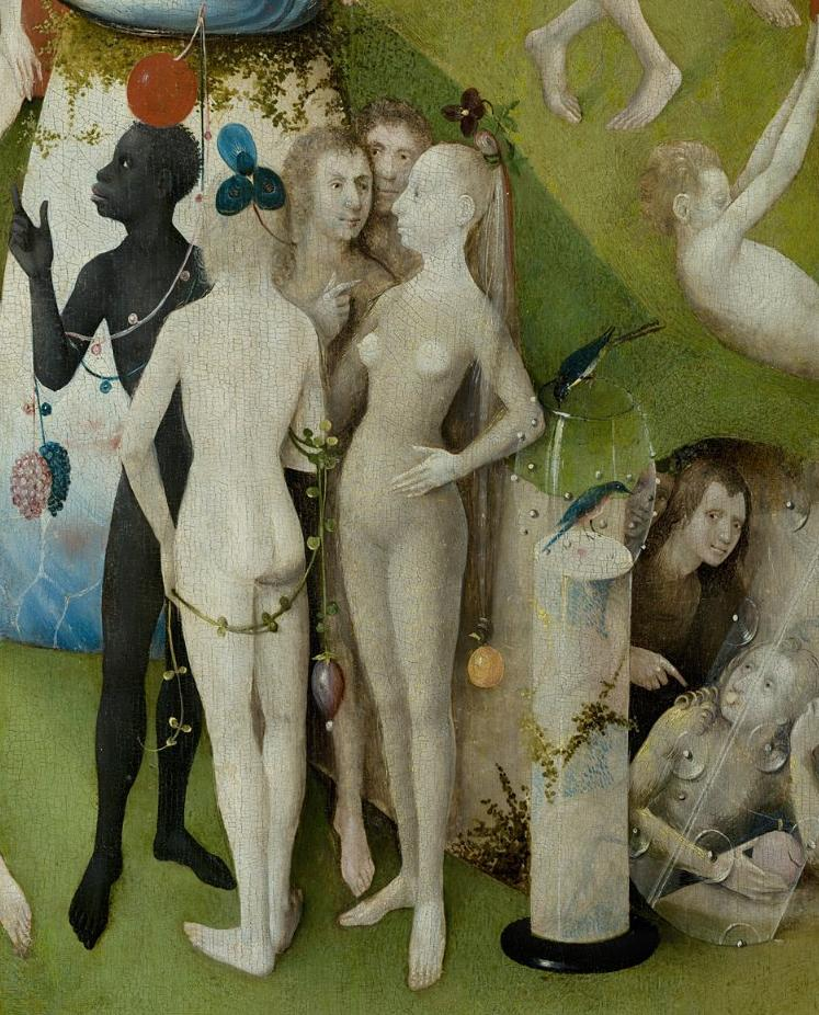 The Garden of Earthly Delights, central panel, detail.